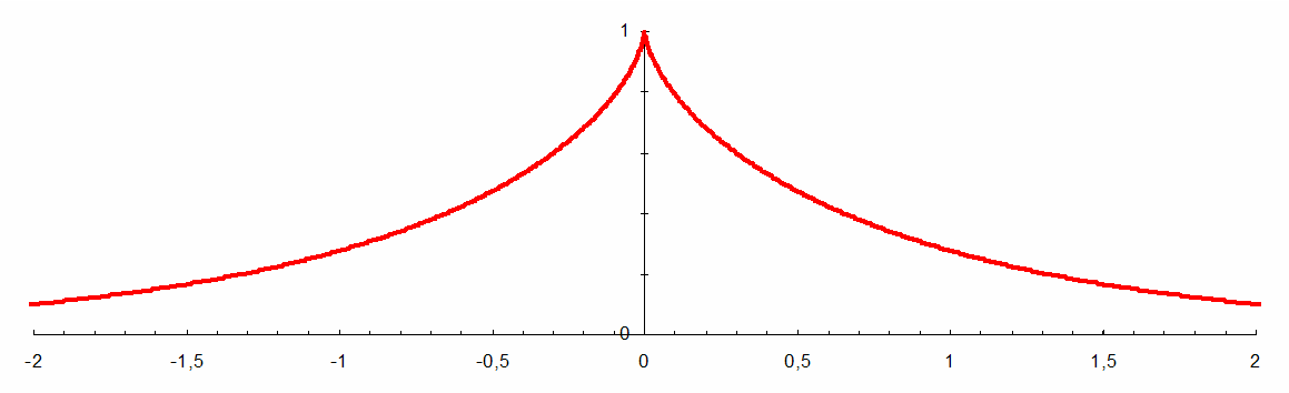 Another version of the tractrix curve. Author: Vivero. Made with spreadsheet and draw apps. and converted to .png